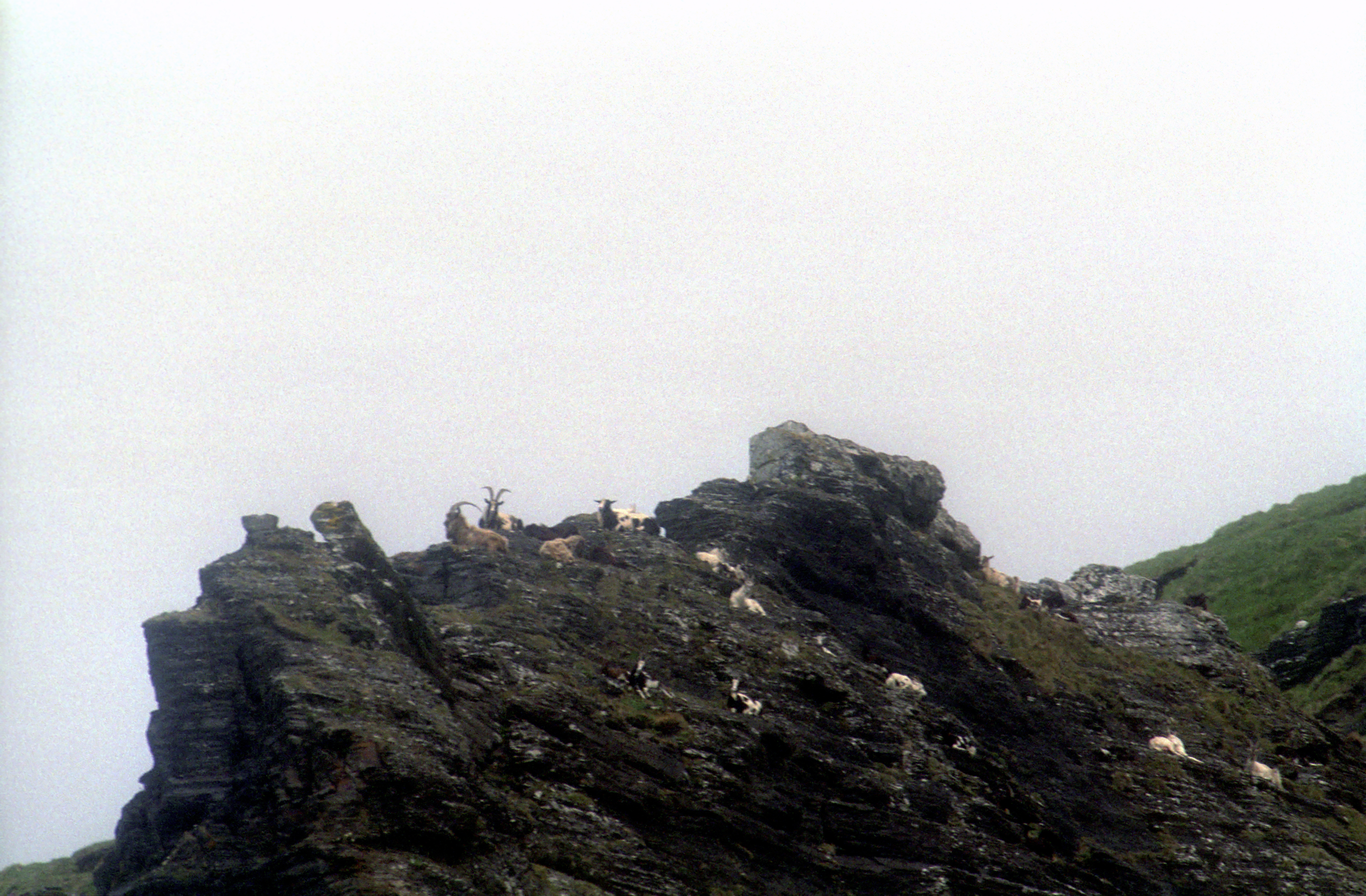 The Cliffs of Moher - The feral Bilberry goats Capra aegagrus hircus